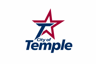 The official city flag of Temple, Texas, created in 2006 by David Blackburn, the Manager of the City of Temple. PNG image of the flag courtesy of Clydette Entzminger, the Secretary of the City of Temple.